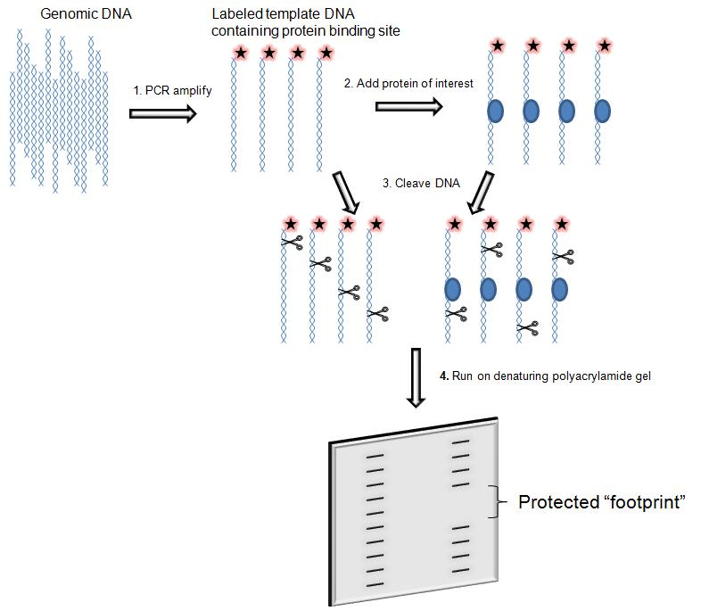 DNA footprinting technique, CFRI